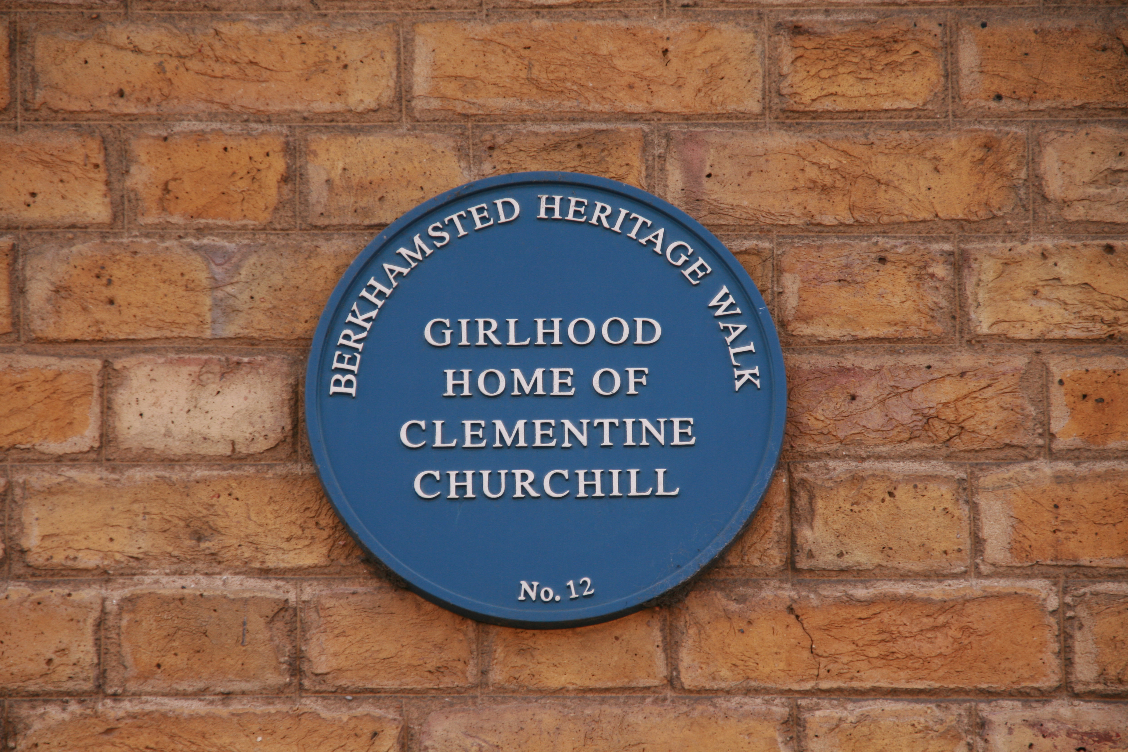 Blue plaque on the childhood home of Clementine Churchill in Berkhamsted, Hertfordshire in the United Kingdom